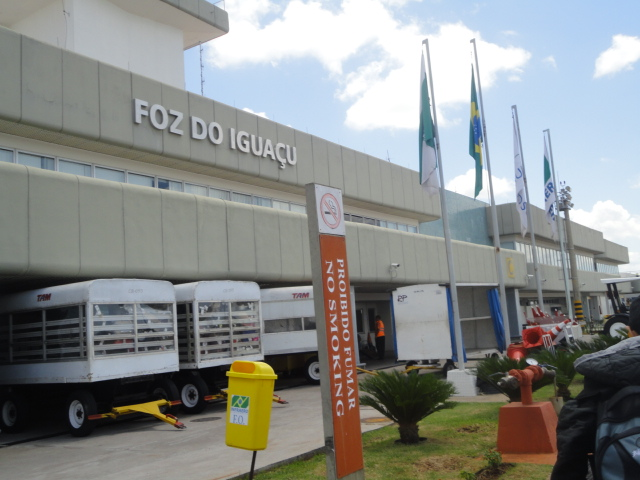 Brasilia